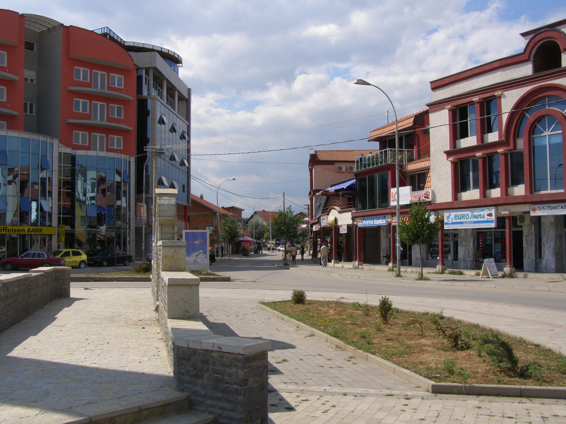 The center of Kline (Kosovo)